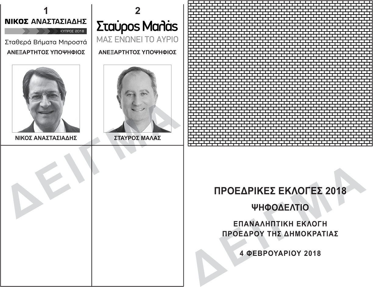 The front side (left) and back side (right) of the ballot used for the second round of the 2018 Cypriot presidential election.